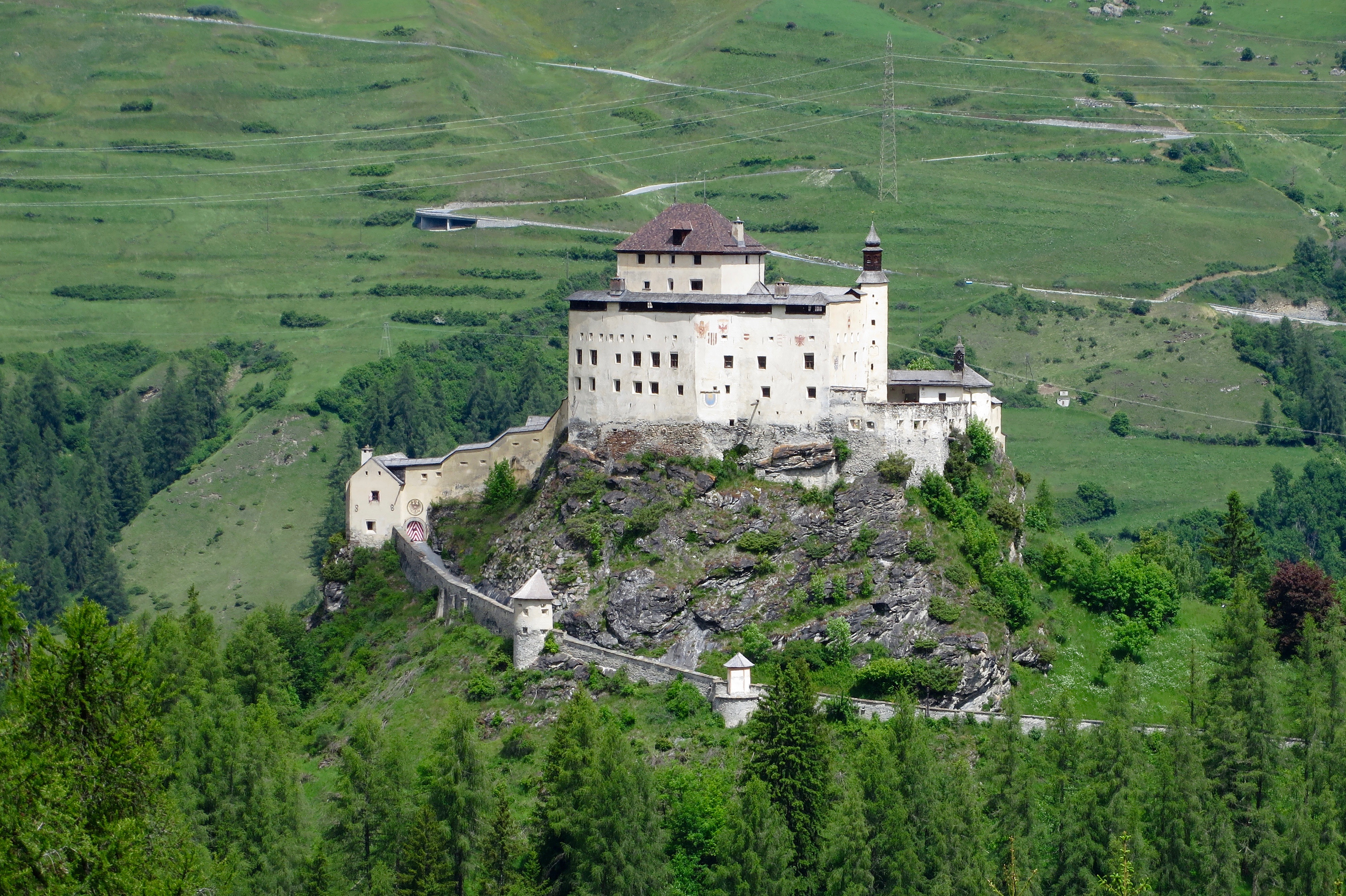 Tarasp Castle, Grisons